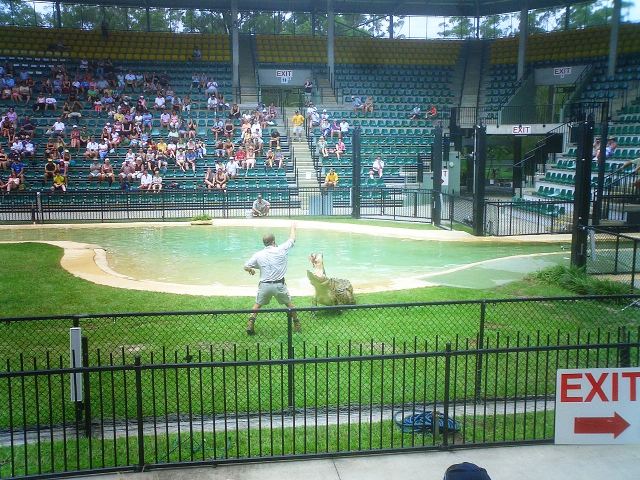 Australia Zoo, Sunshine Coast, Australia. Photo of the croc show.